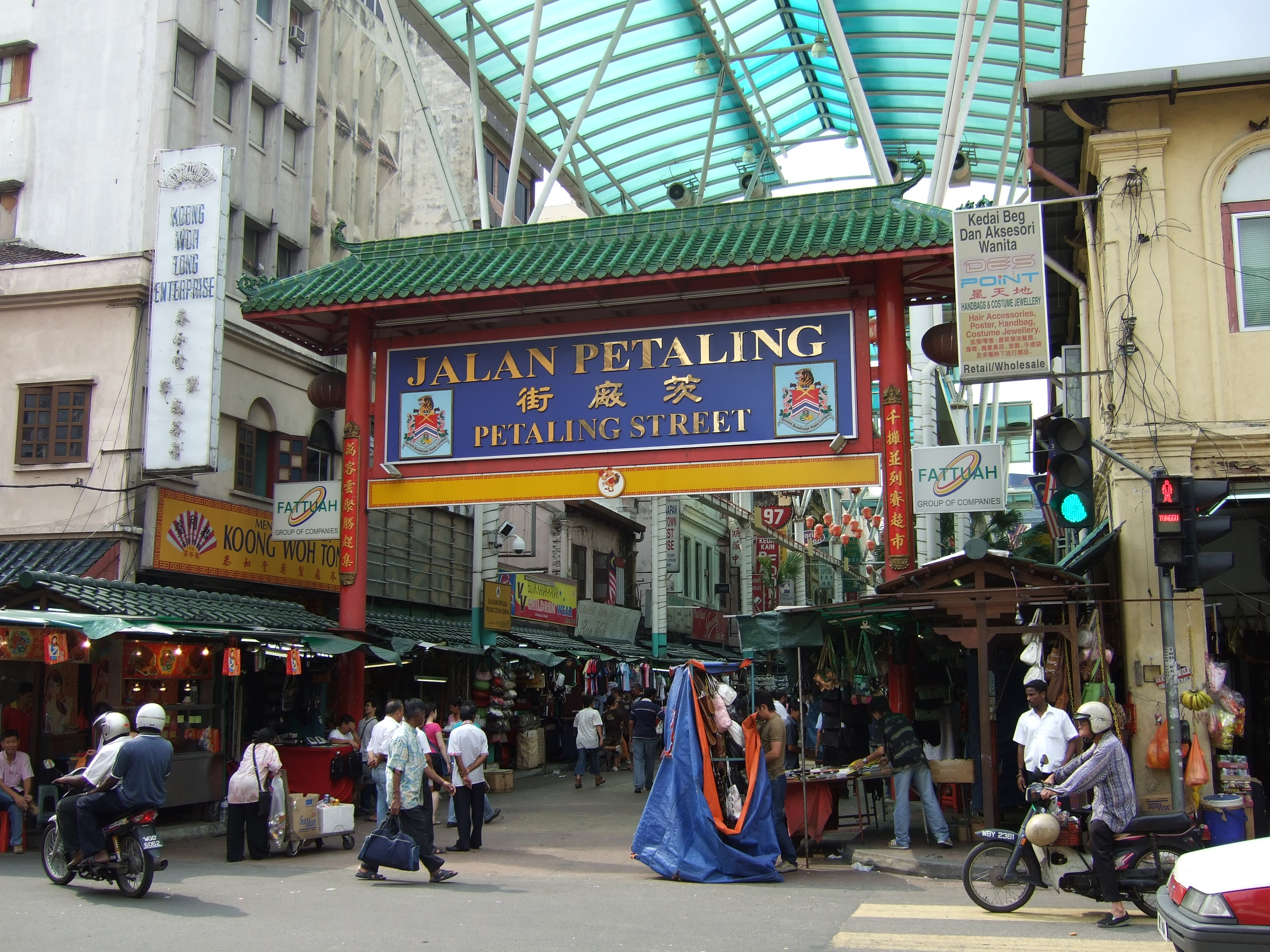 Green Dragon on the Petaling Street Entrance.